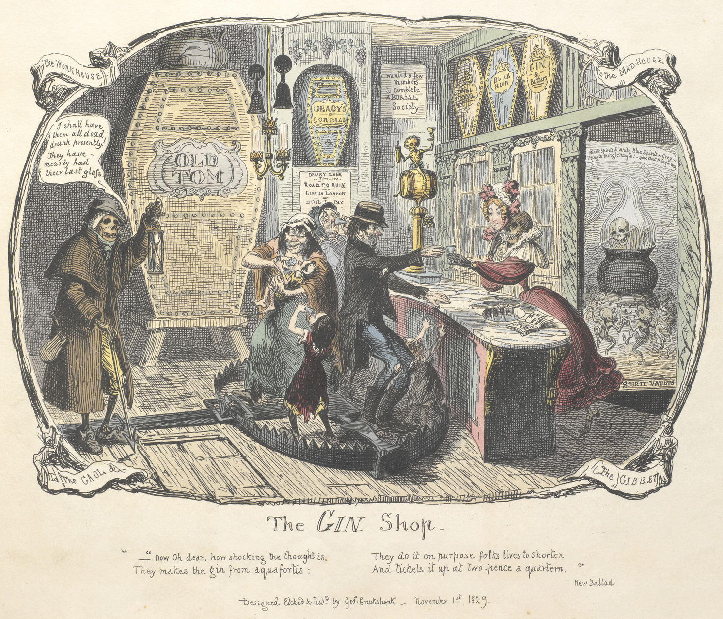 'The Gin shop'. A satirical sketch on the dangers of drinking alcohol.